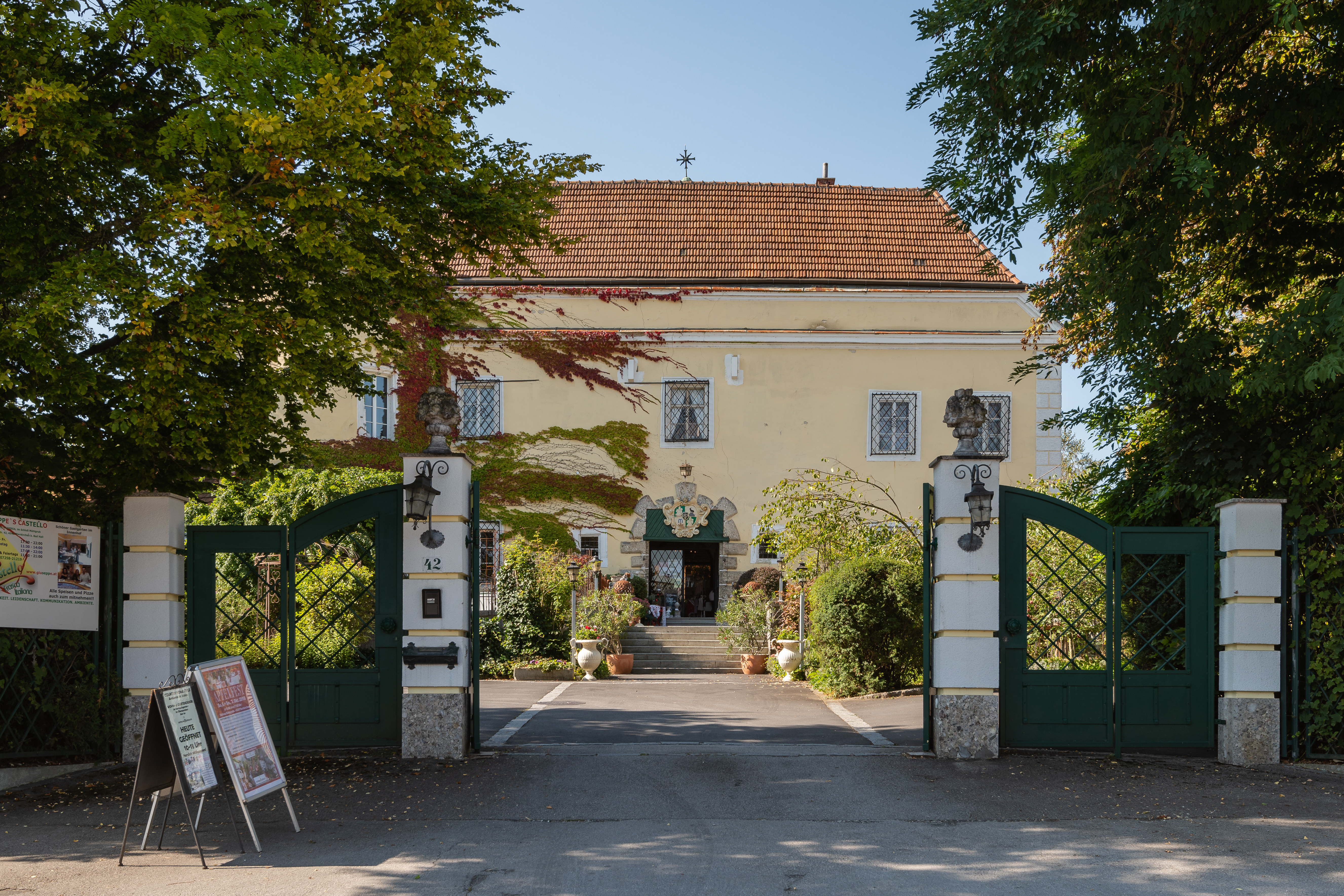 Castle Mühlgrub in Pfarrkirchen bei Bad Hall, Upper Austria